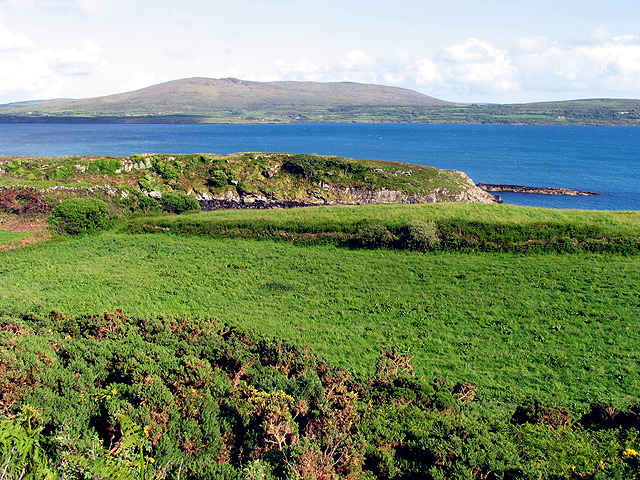 Coastline near Ahakista. This grid square is about two thirds land and a third sea. This view looks more or less south east into Dunmarrus Bay.